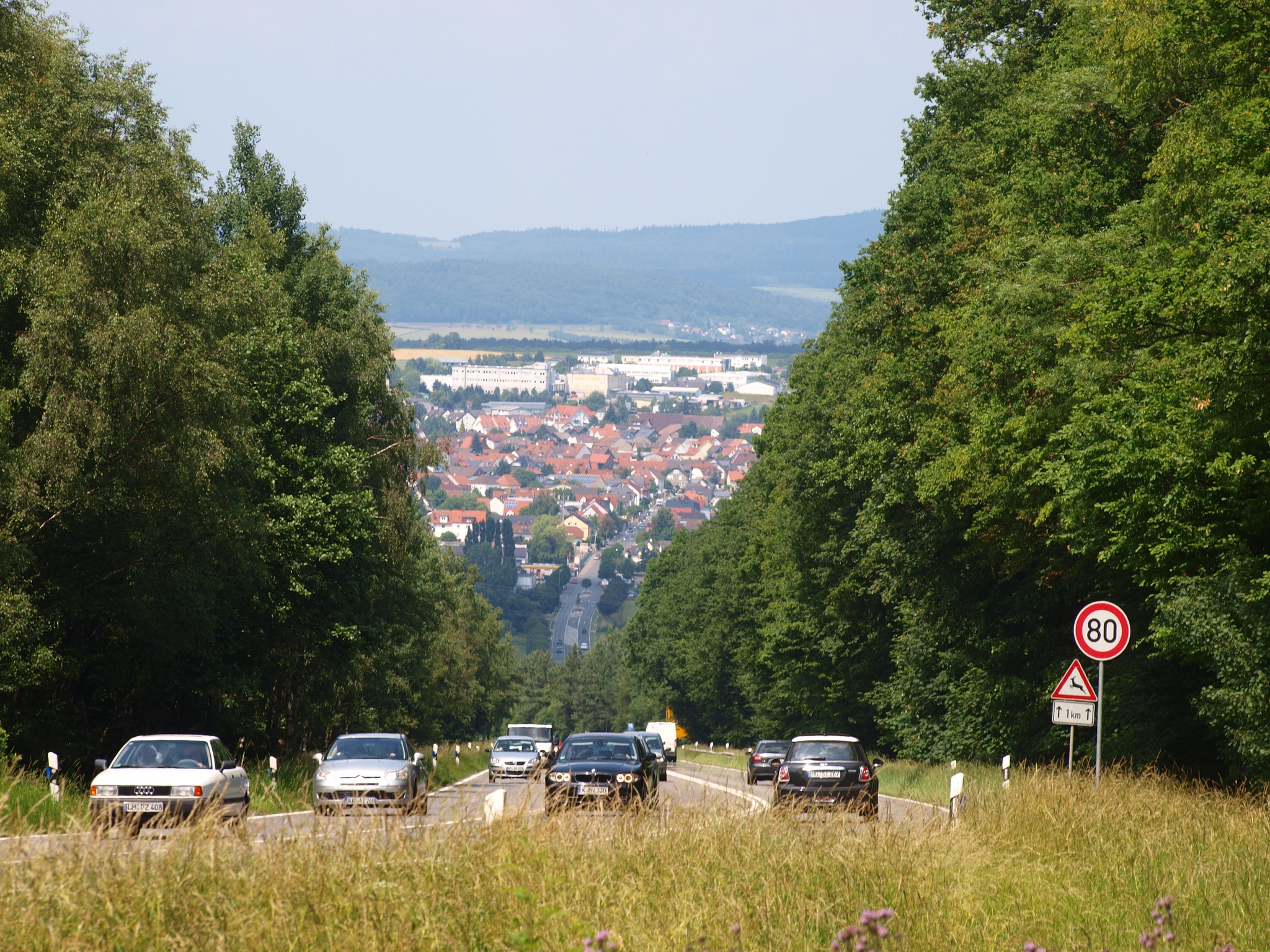 B 456/Saalburg pass, view to north down to Wehrheim